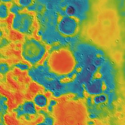 Grimaldi Basin gravity map (red=high, blue=low). Generated from GRAIL Colorized Gravity Anomalies (JPL) layer with LRO-WAC Shaded Relief at 30% opacity overlain.